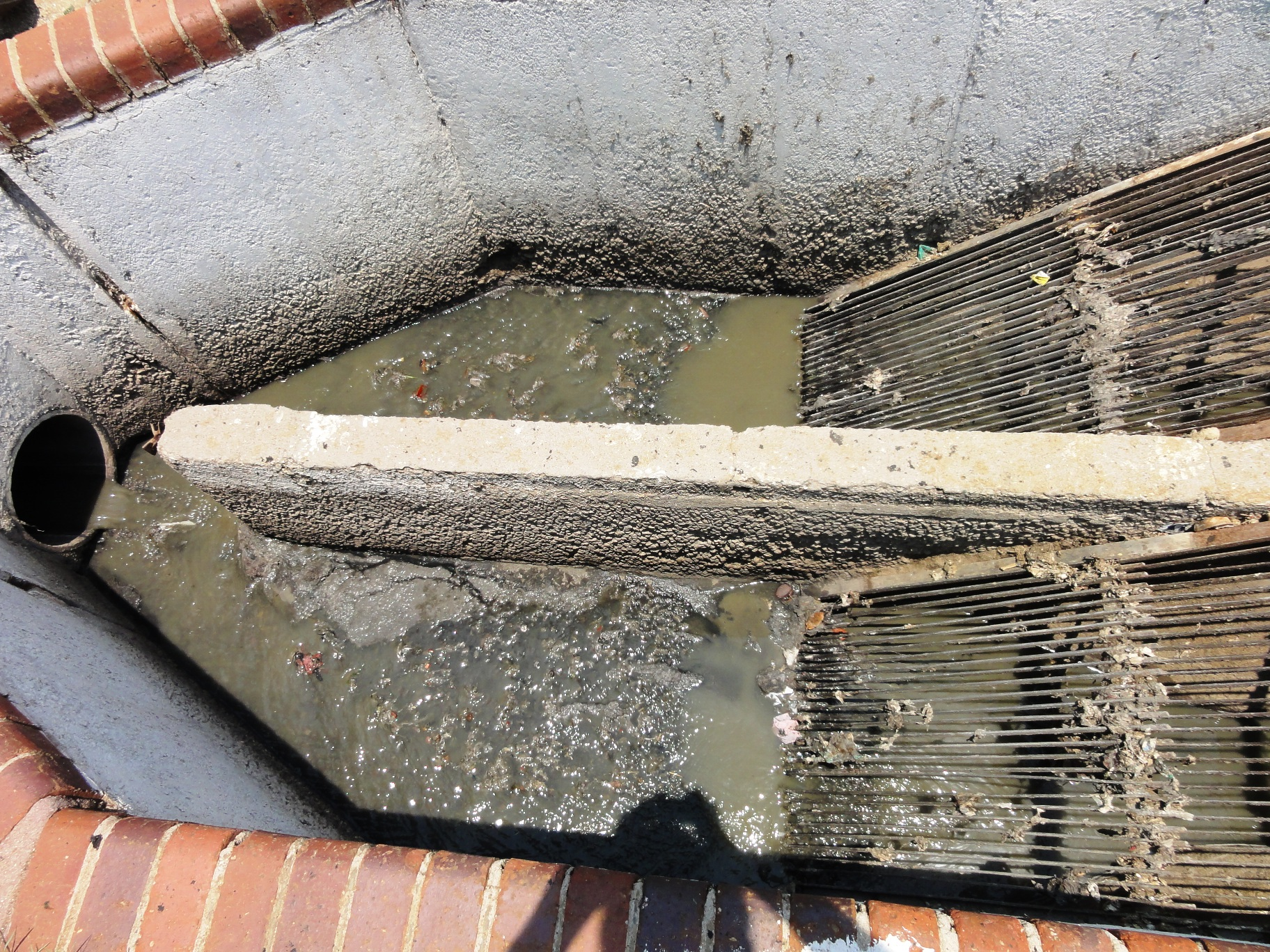 Broken down WWTP in Norton. Photo taken by P. Feiereisen on 19 October 2011in Norton, Zimbabwe.